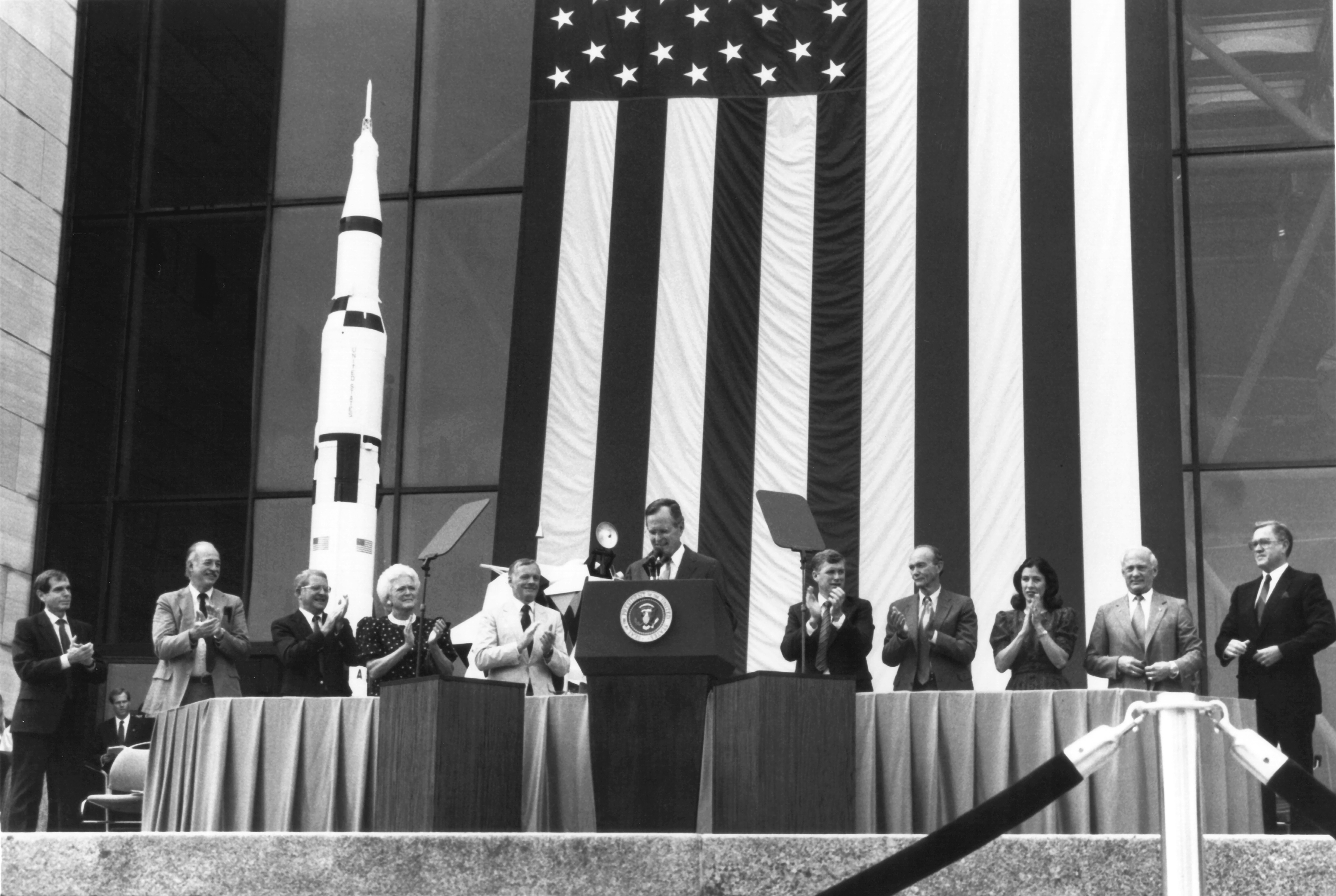 President George Bush speaks at the National Air and Space Museum's 20th anniversary celebration of the Apollo 11 Moon landing. Here, on July 20, 1989, Bush announced his new Space Exploration Initiative, which was to complete the space station, return man to the moon, and bring man to Mars for the first time. The plan fell apart when NASA offered an estimated budget of 500 billion over the next 20 to 30 years to achieve the President's goal. Congress balked, and NASA returned to its earlier program of primarily robotic space exploration. From left to right are NASA Administrator Admr. Richard Truly, First Lady Mrs. Barbara Bush, Neil Armstrong, President George Bush, Vice President Dan Quayle, Michael Collins, Mrs. Marilyn Quayle, and Buzz Aldrin.